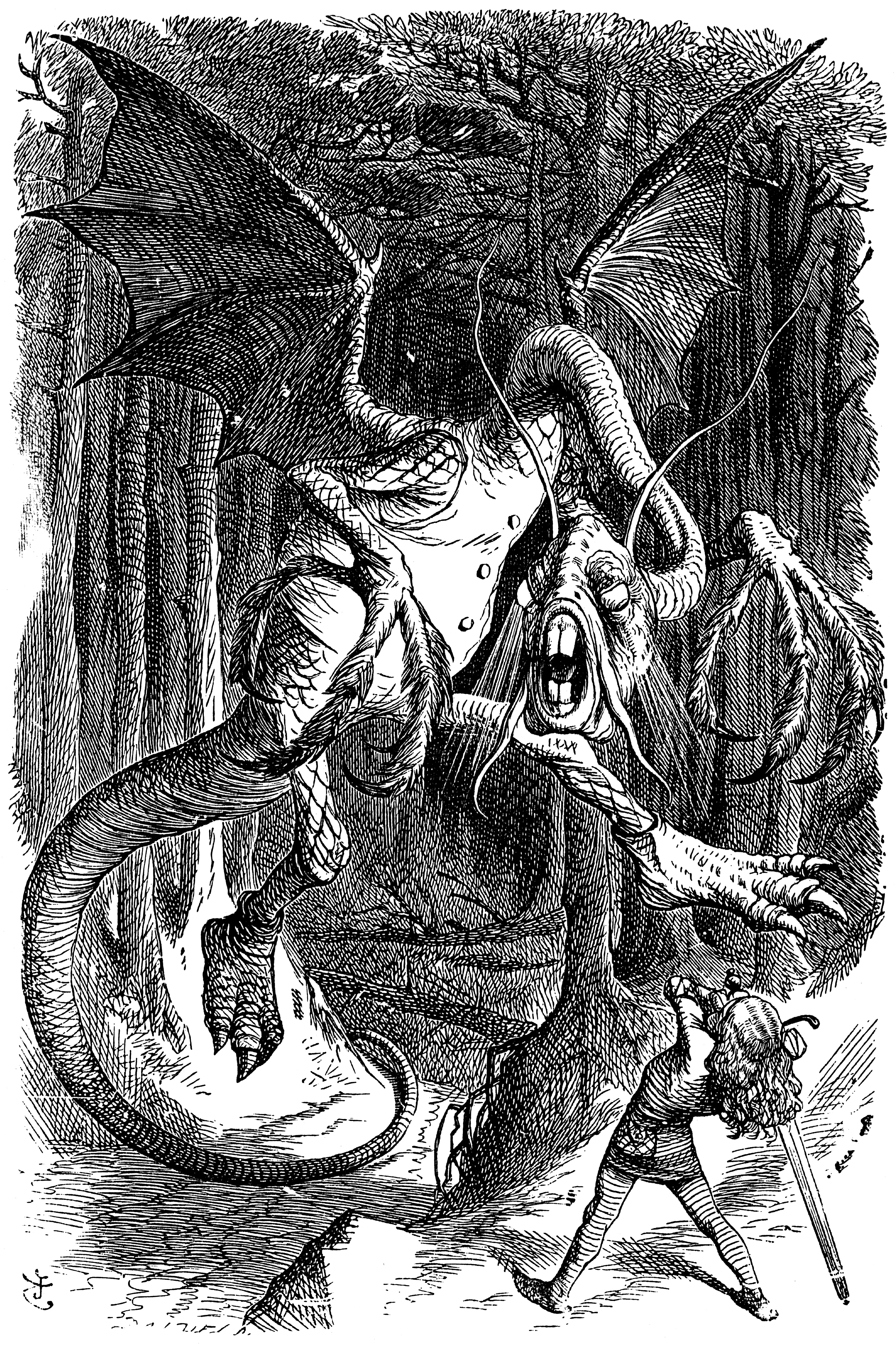 "The Jabberwocky". An illustration to the poem Jabberwocky. First published in Carroll, Lewis. 1871. Through the Looking-Glass, and What Alice Found There.